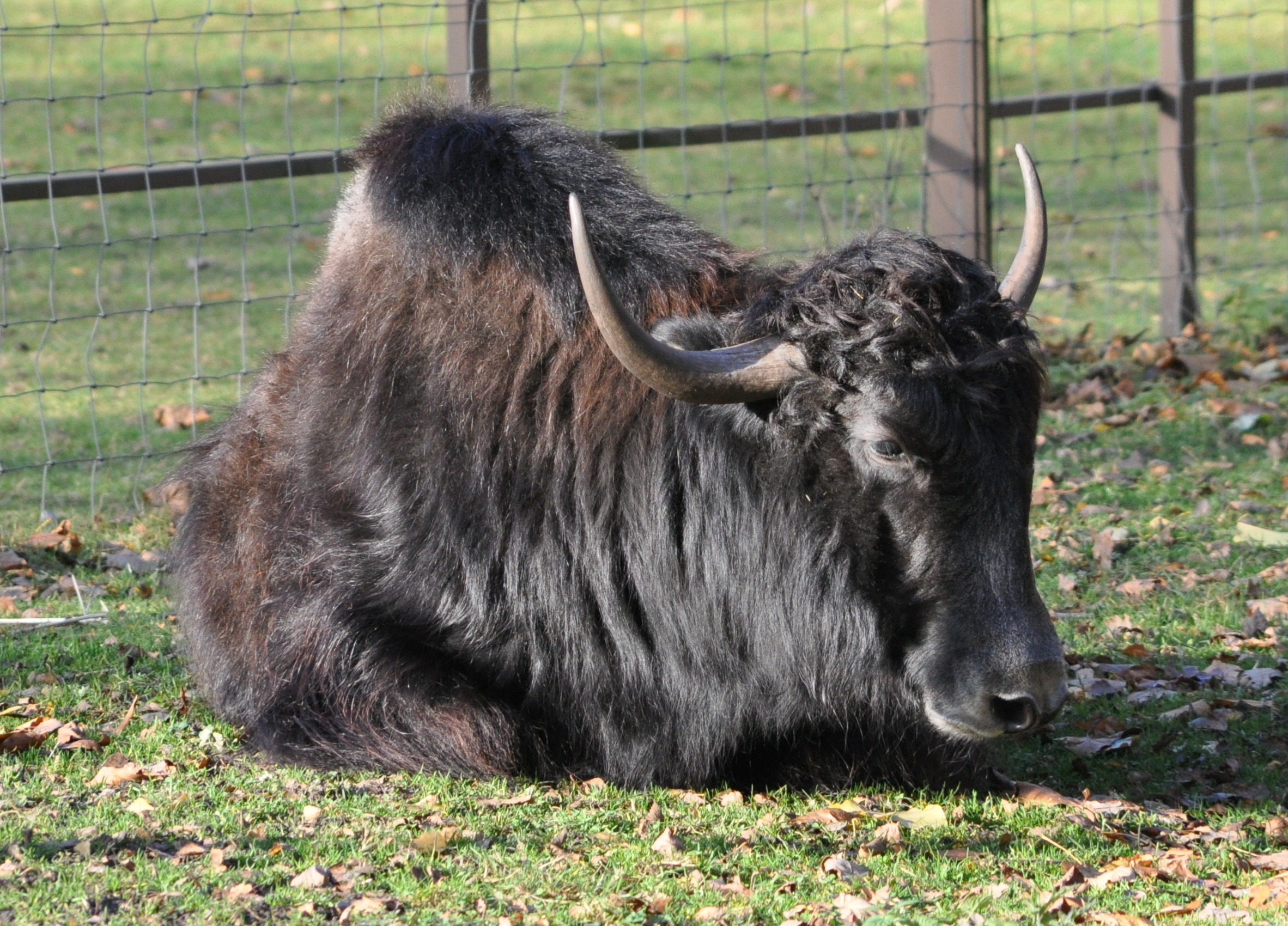 Yak (Bos mutus) in the Lüneburg Heath wildlife park, Germany.